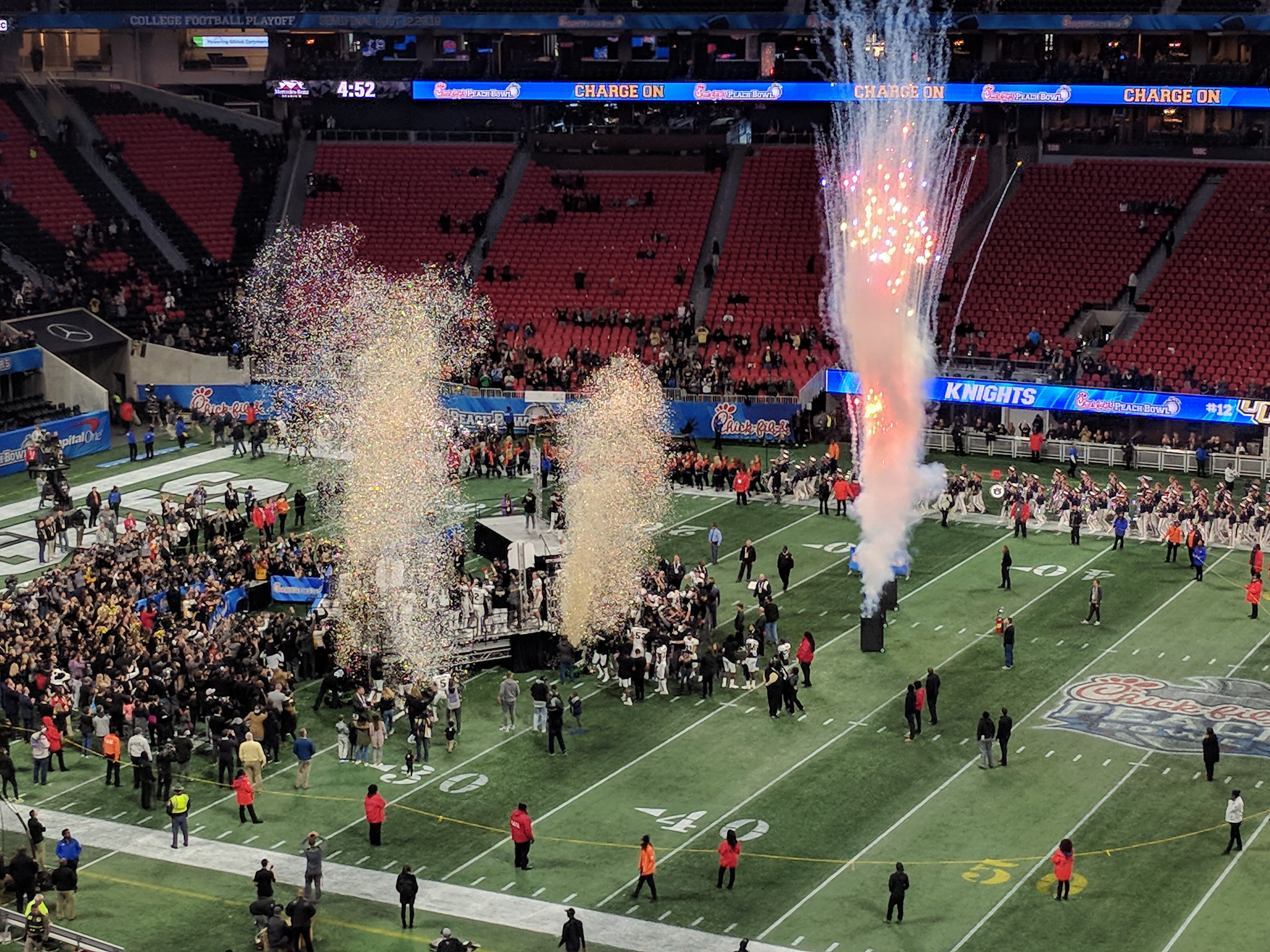 Peach Bowl Celebration